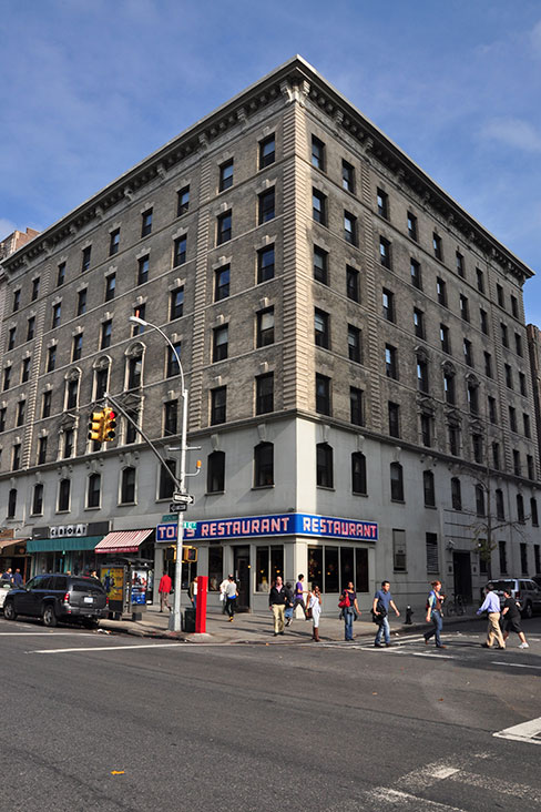 Picture of the building that GISS is in